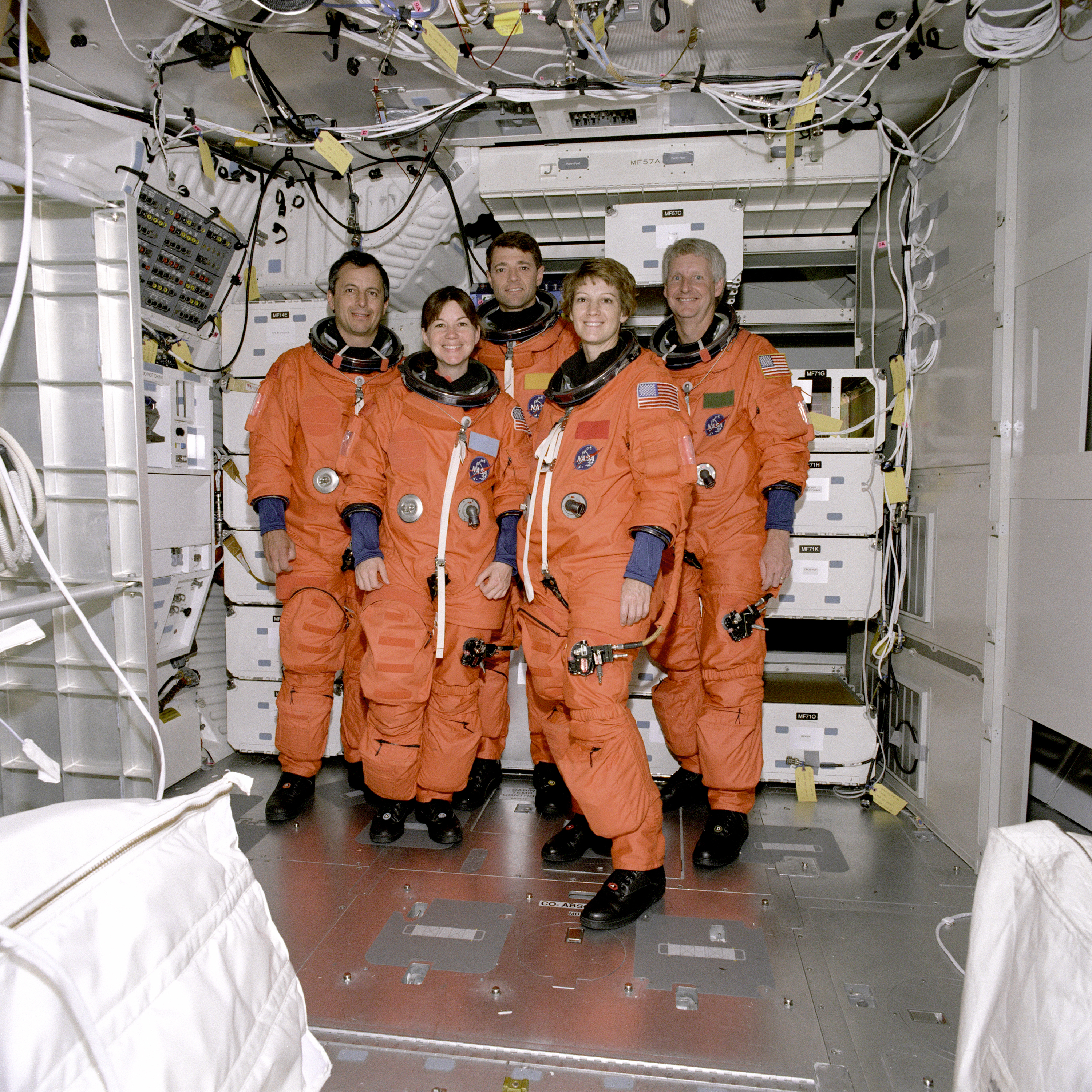 STS-93 crew emergency egress training in the Crew Compartment Trainer (CCT). The five crewmembers of STS-93 in the middeck mock-up are from left to right: Mission Specialist Michel Tognini, Mission Specialist Catherine "Cady" Coleman, Pilot Jeffrey Ashby, Commander Eileen Collins and Mission Specialist Stephen Hawley.